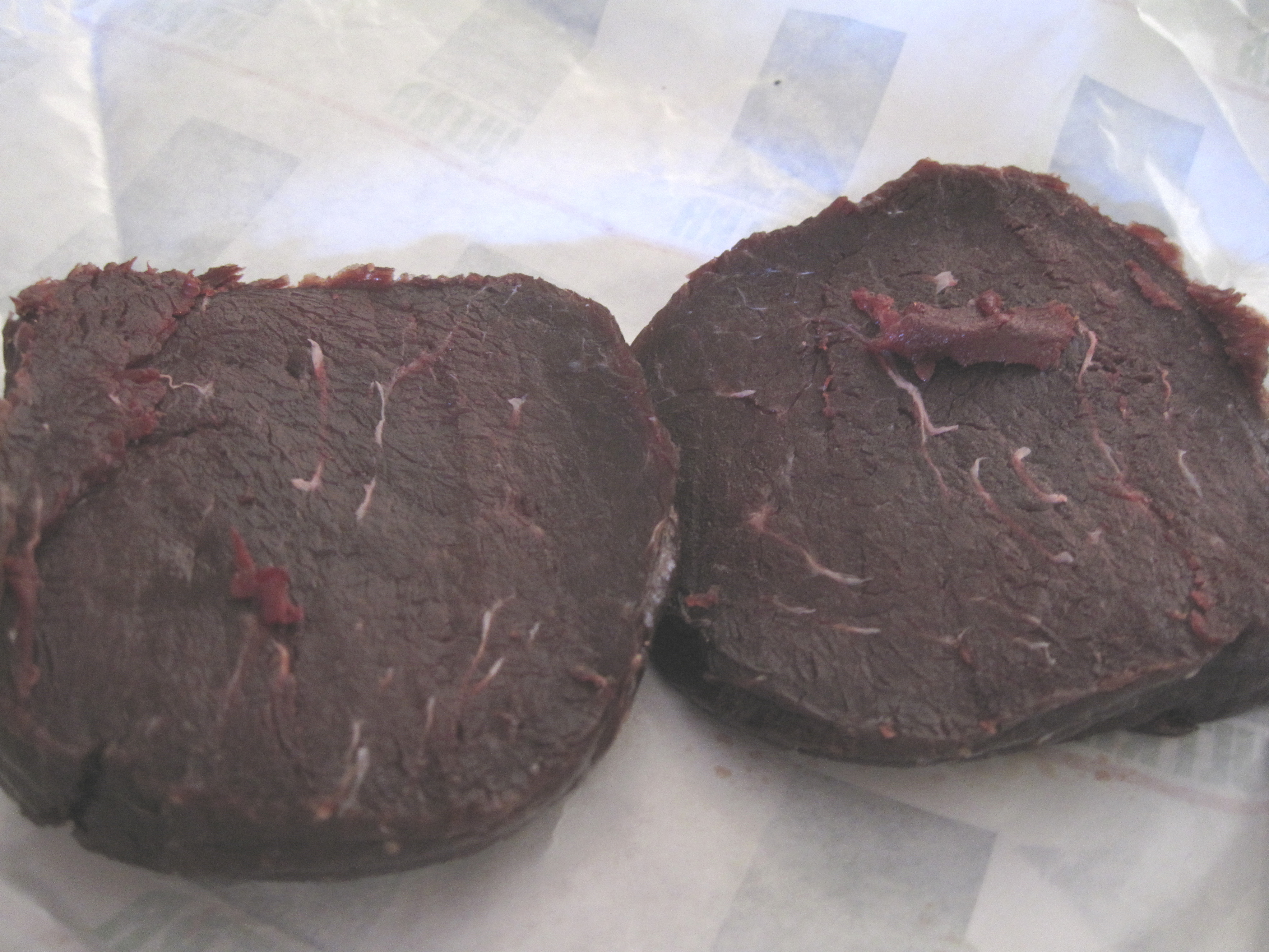 Uncooked minke whale meat steak. Bought in Norway.